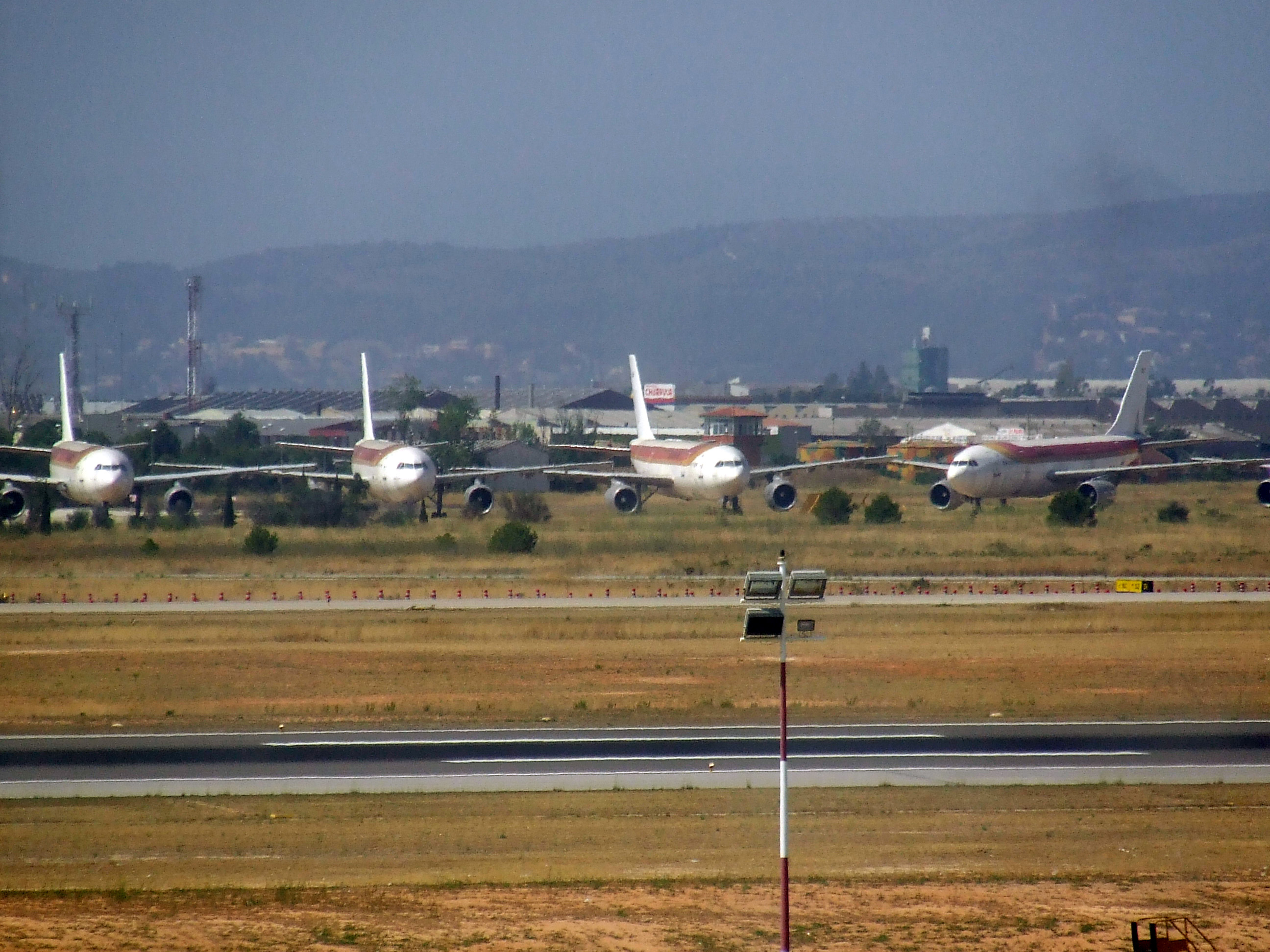 A300 Iberia at the Valencia's Airport